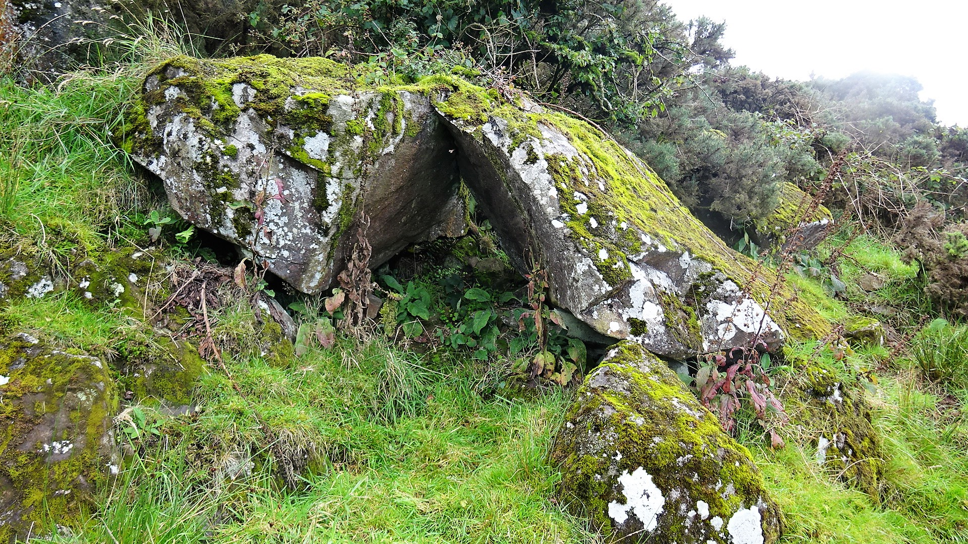 The covenanter minister Alexander Peden is said to have sheltered here after he held a conventicle in 1665.